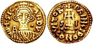 Lombards, Beneventum (nowdays Benevento. Sicard. 832-839 AD. EL Solidus (3.78 gm). SIC- -ARDV•, crowned and draped facing bust, holding globus cruciger; wedge in right field VITOR• +PRINCI, cross potent on two steps; S I, each with wedges beneath, flanking; CONOB. MEC 1, 1108; BMC Vandals pg. 179, 3; CNI XVIII pg, 173, 1. Good VF, toned. From the Garth R. Drewry Collection. Ex Empire Coins 4 (10 November 1985), lot 550.